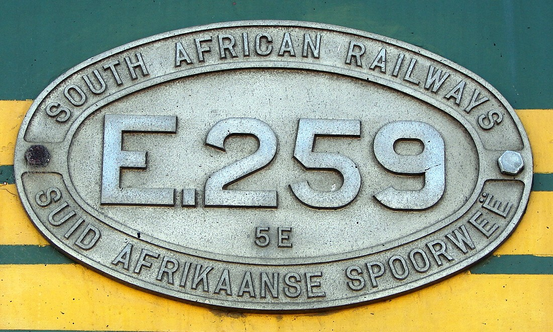 SAR Class 5E Series 1 E259 number plate Builder's Number: EE 2163 Location: Bellville, Cape Town